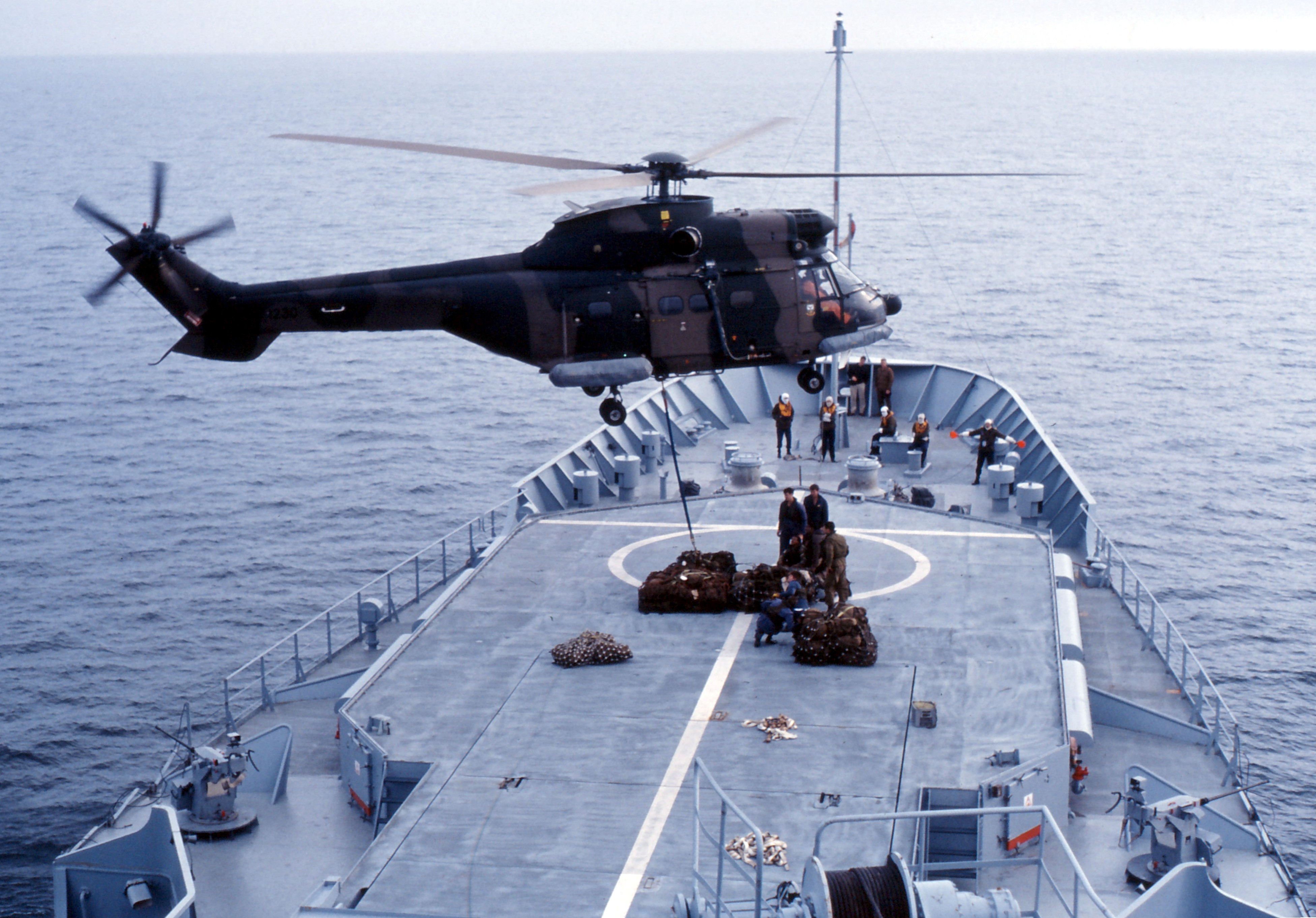 Oryx no. 1230 cargo-slinging off the SAS Drakensberg